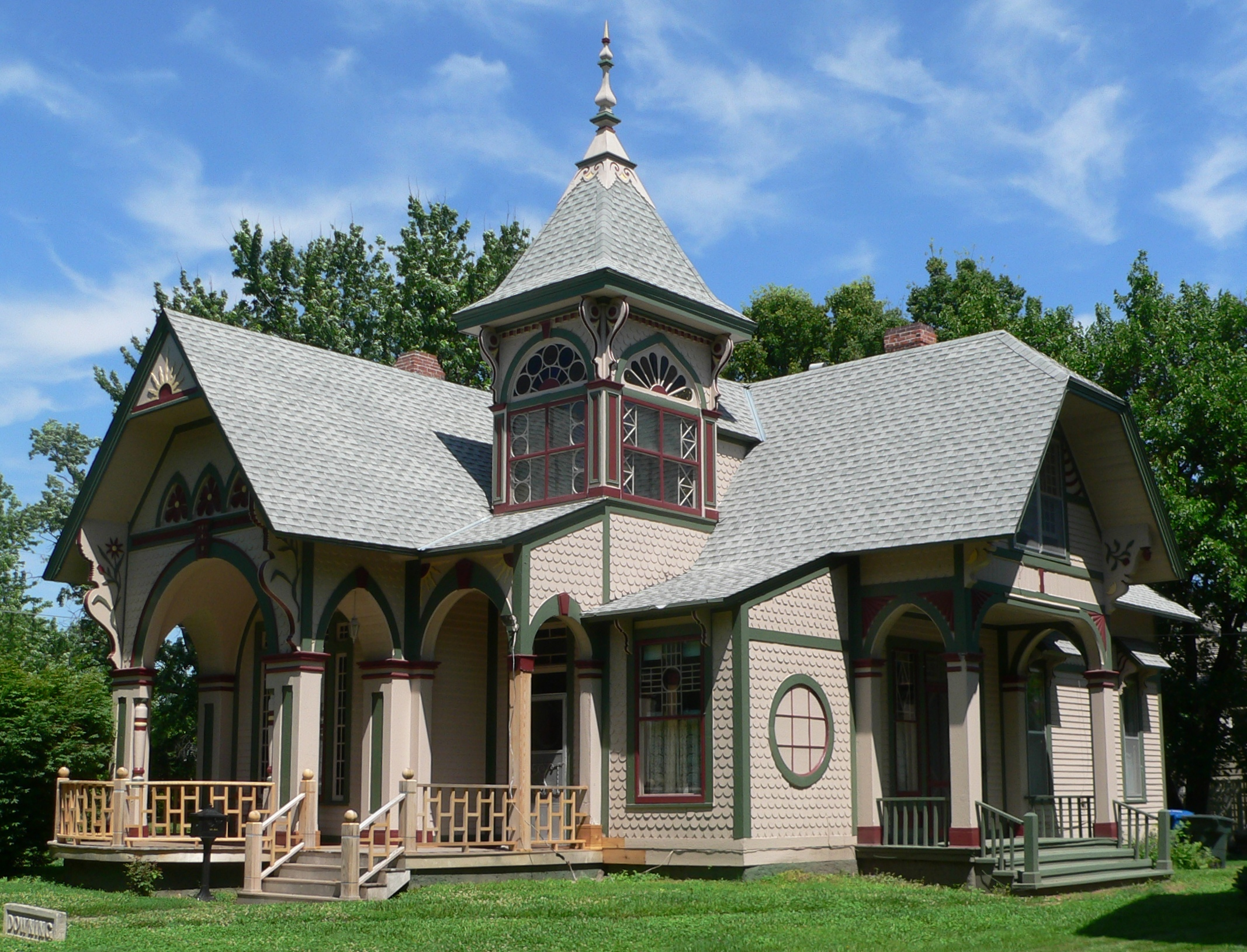 Hanson-Downing House in Kearney, Nebraska; seen from the southeast. The house was constructed in 1886 in the cottage orné style. It is listed in the National Register of Historic Places. It is now the home of the Kearney Woman's Club.